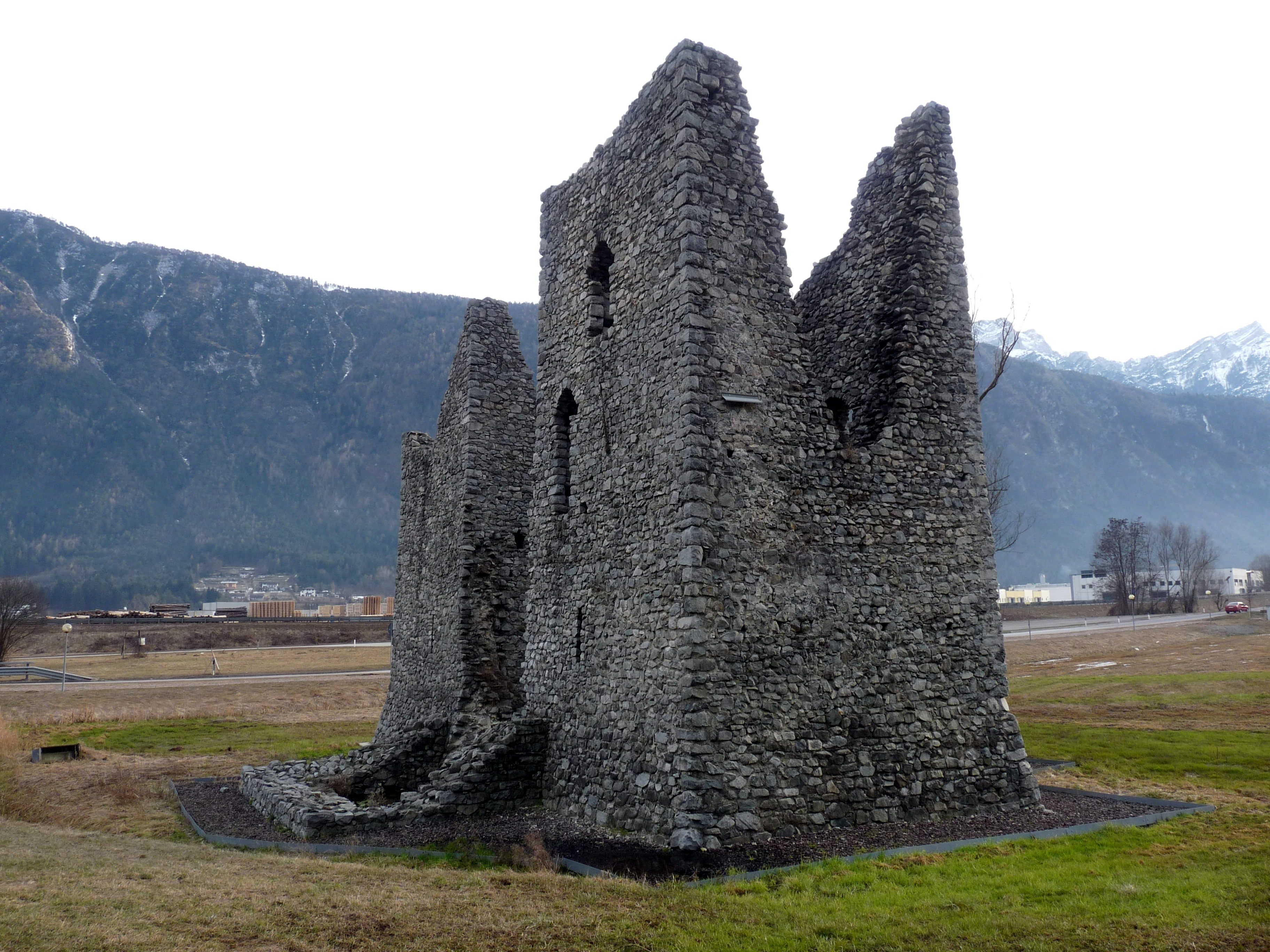 Novaledo (Italy): view of the remains of the so-called Tor Quadra from north-east.